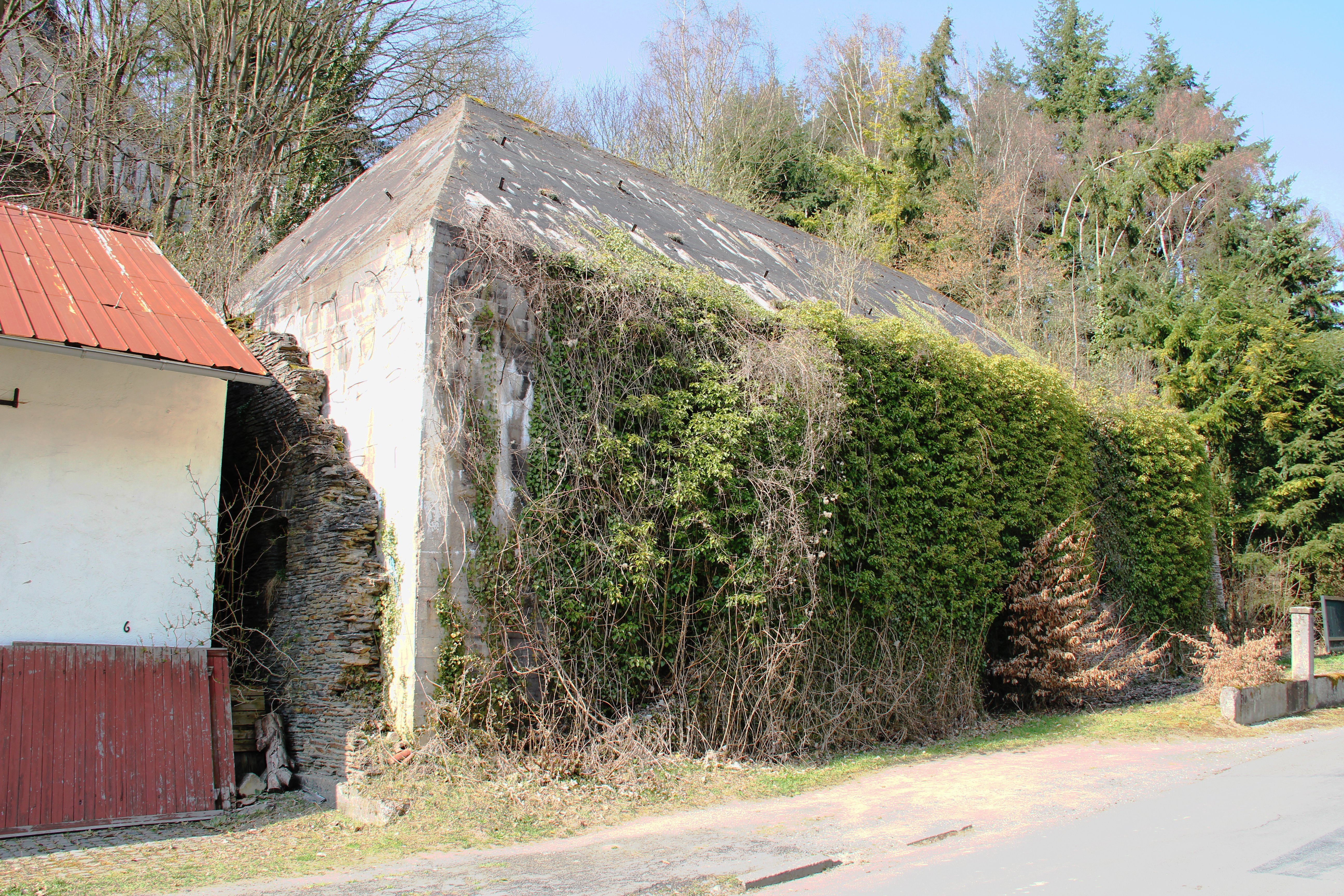 bunker in Ziegenberg (Germany). Part of Führer Headquarters Adlerhorst